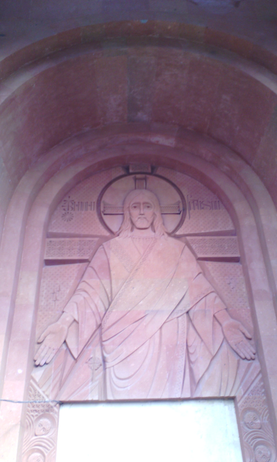 Jesus Christ on the southern entrance